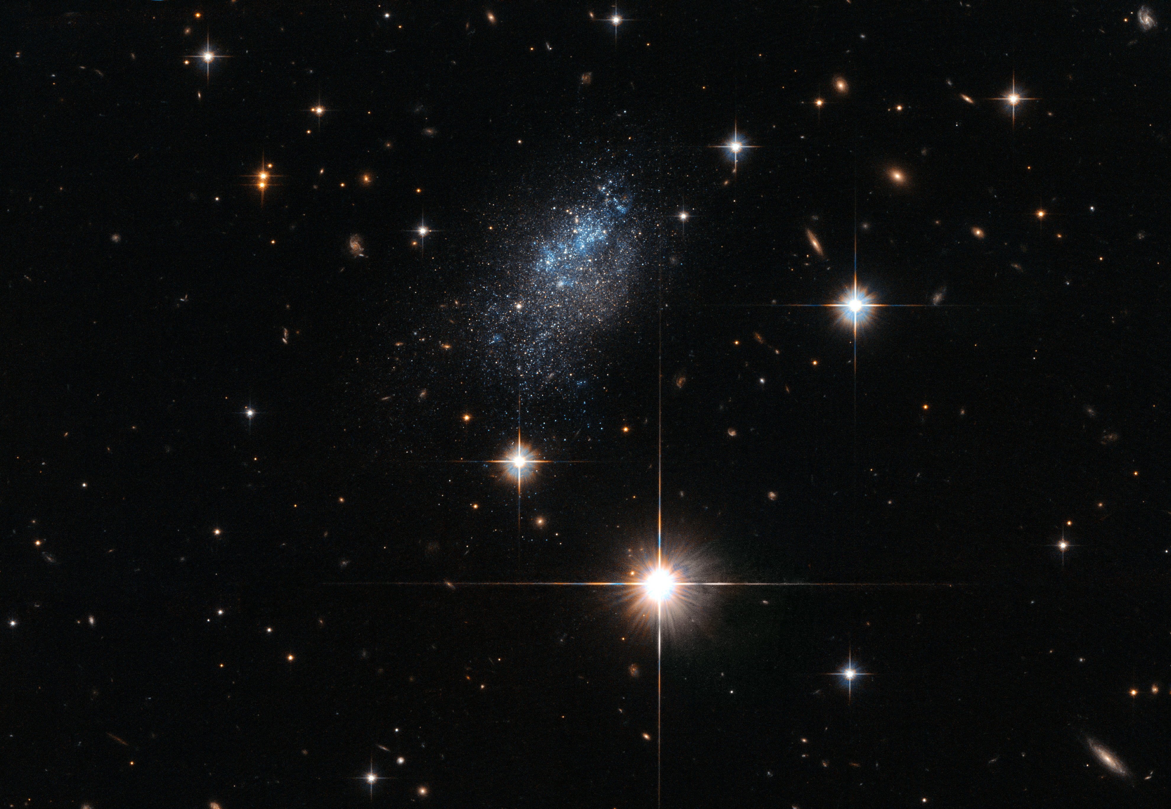 The distances to objects in the Universe can differ enormously. The nearest star to us — Proxima Centauri — lies some 4.2 light-years from us, while some incredibly distant galaxies are so far away — 13 billion light-years or more — that they are only visible to us as a result of cosmic tricks of magnification. The subject of this image, a galaxy called ESO 376-16, sits nearly 23 million light-years from Earth — not that great a distance on a cosmic scale. However, given the galaxy’s relative proximity to us, we know surprisingly little about it. Astronomers are still debating about many of the properties of ESO 376-16, including its morphology. Galaxies are divided into types based on their visual appearance and characteristics; spiral galaxies, like the Milky Way, are flattened discs with curved arms sweeping out from a central nucleus, while irregular galaxies lack a distinct structure and look far more chaotic. On the basis of its rather ill-defined morphology, ESO 376-16 is thought to be either a late-type spiral or a dwarf irregular galaxy. Despite its mystique, observations of ESO 376-16 have been useful in several studies, including one made with the NASA/ESA Hubble Space Telescope that aimed to create a 3D map of galaxies lying in the vicinity of Earth. Researchers used Hubble to gauge the distance to galaxies including ESO 376-16 by measuring the luminosities of especially bright red-giant-branch stars sitting within the galaxies. They then used their data to generate and calibrate 3D maps of the distribution of galaxies throughout the nearby cosmos.